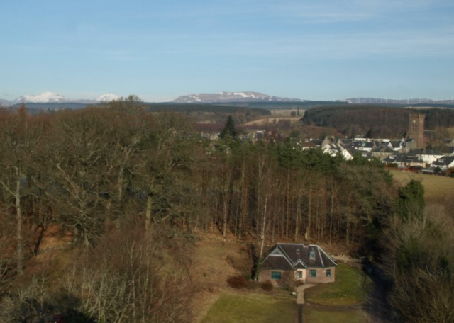 View North from the battlements of Doune Castle